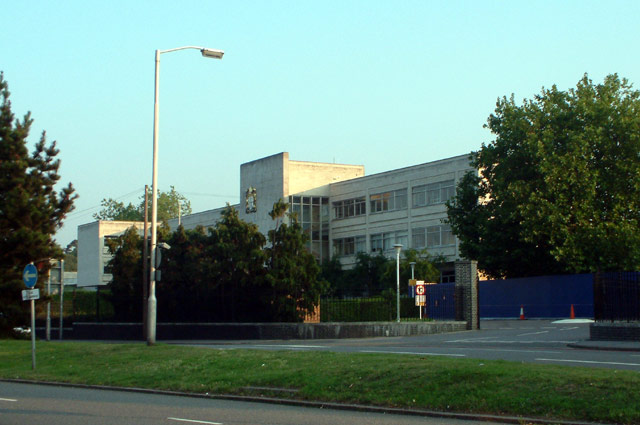 Trinity School of John Whitgift in Shirley Road, Croydon.